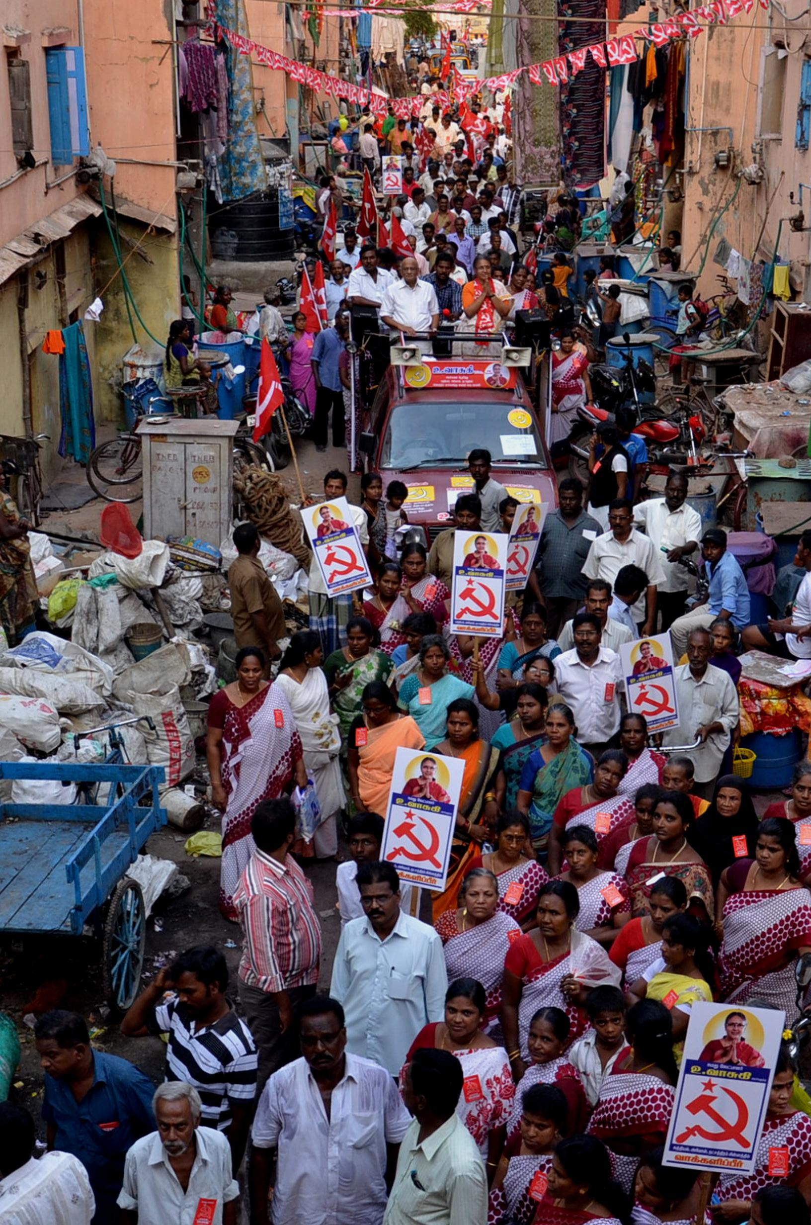 CPIM North Chennai Rally